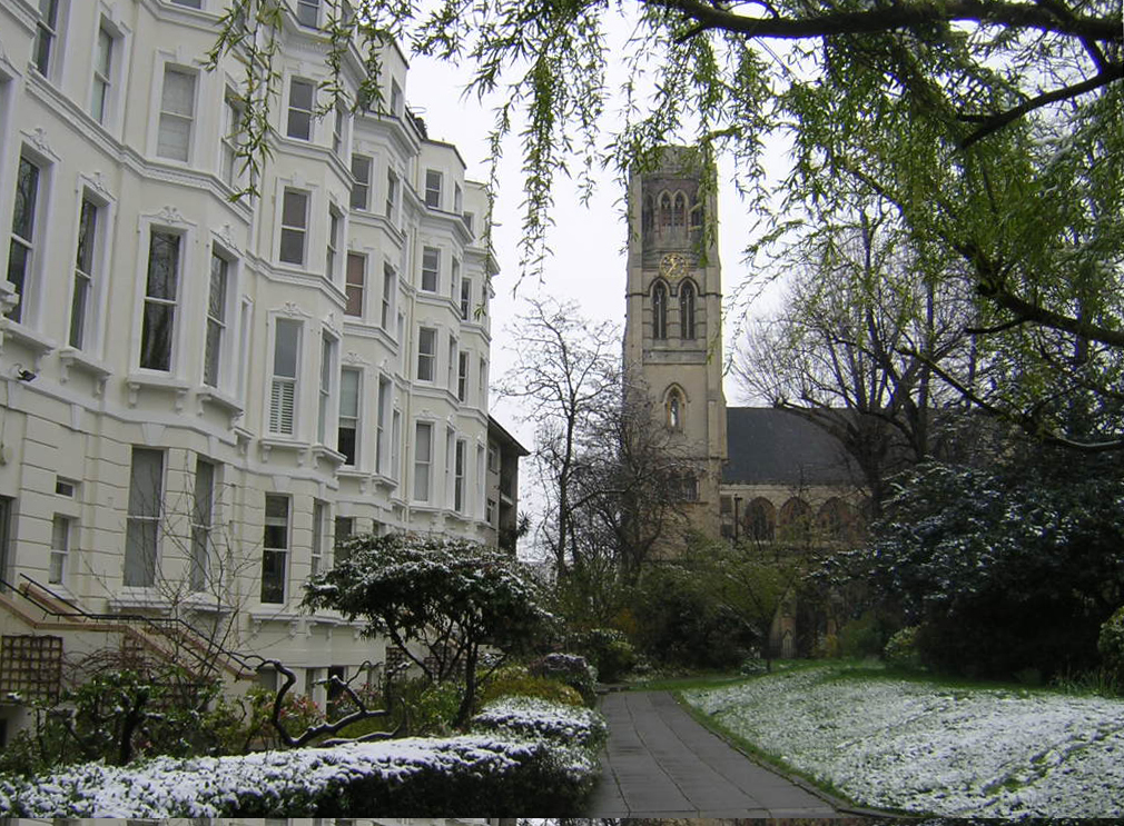 Pinehurst Court, Notting Hill, London W11, with the tower of All Saints' parish church